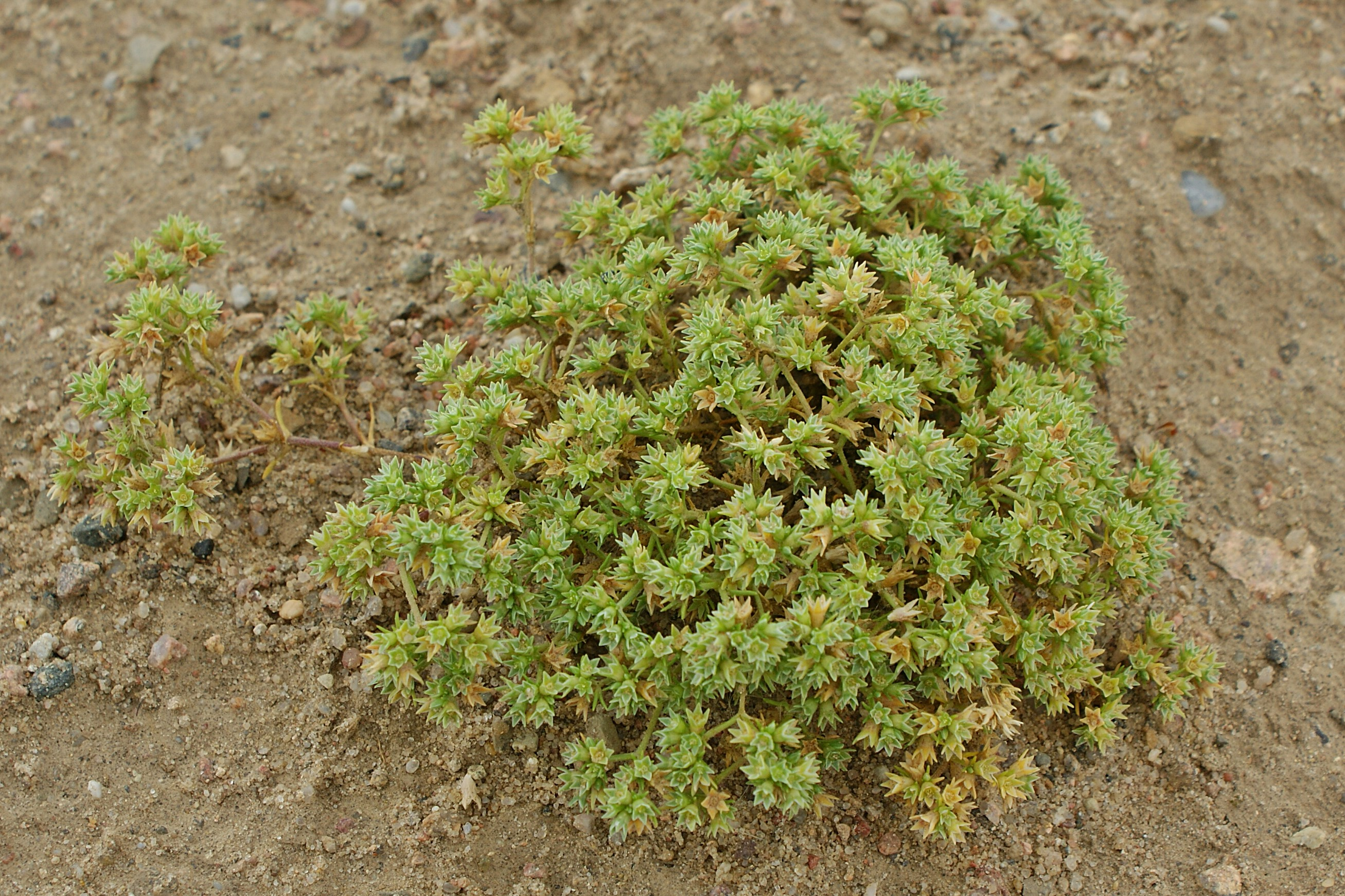 Scleranthus annuus